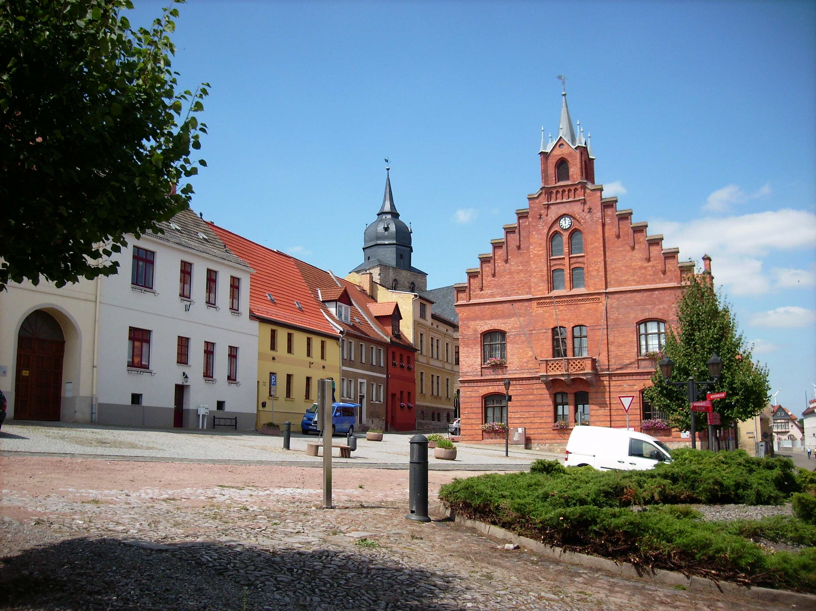 Market-square in Alsleben/Saale (district of Salzlandkreis, Saxony-Anhalt) with town hall and the steeple of the town's Lutheran church